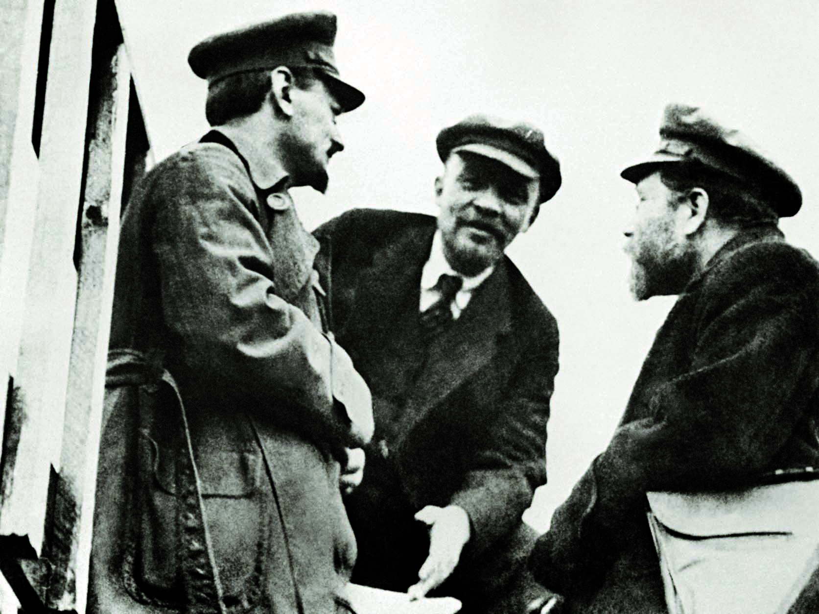 Moscow. Lev (Leon) Trotsky, Vladimir Lenin and Lev Kamenev (L-R). Photo TASS